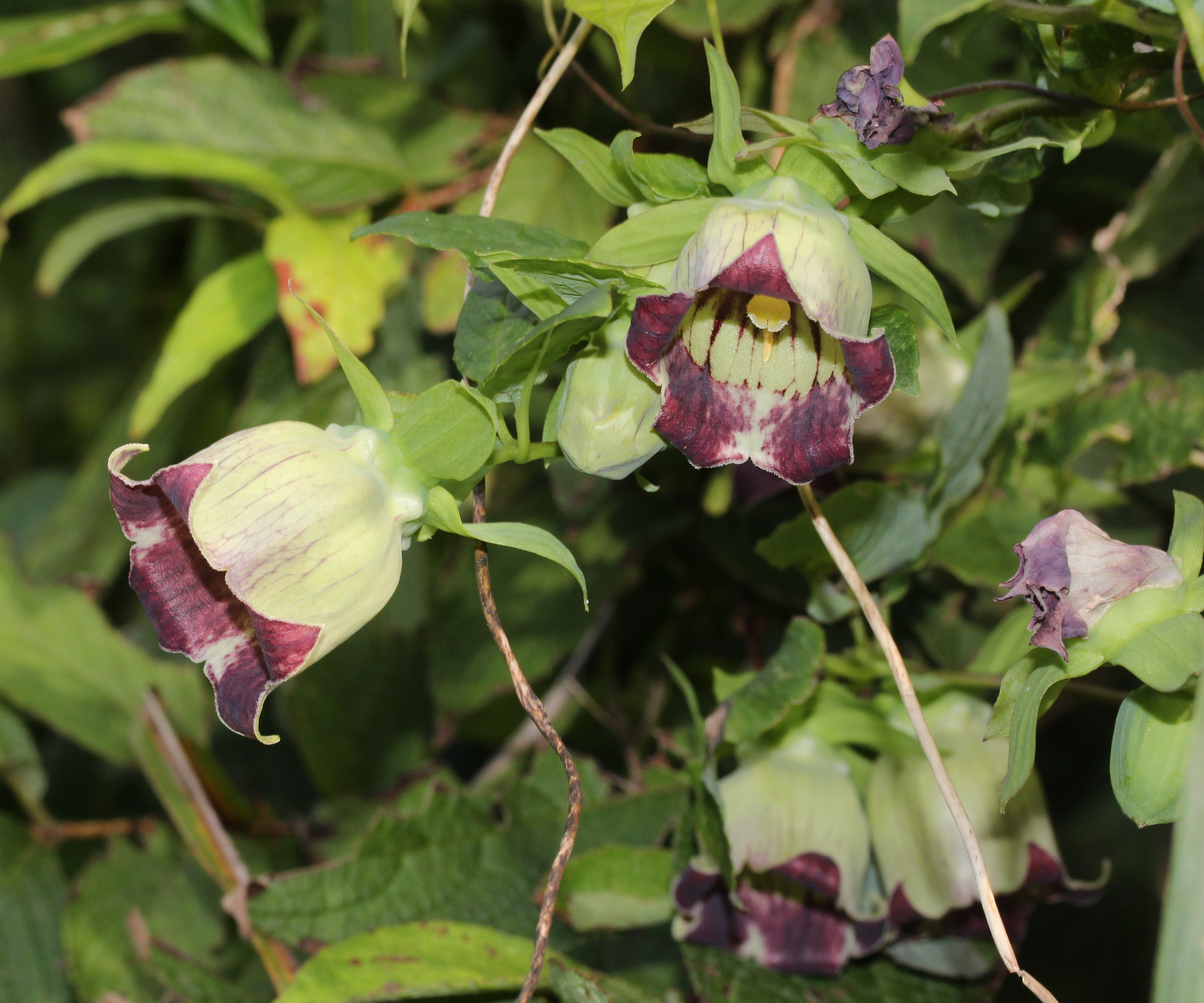 Codonopsis lanceolata in Mount Ibuki, Ibigawa, Gifu prefecture, Japan.